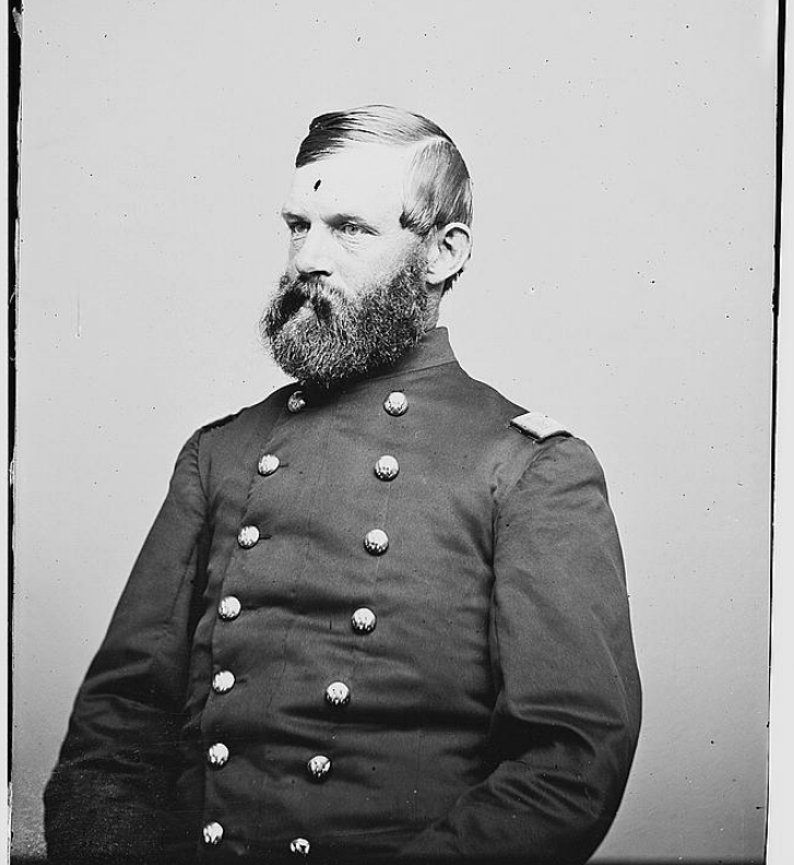 Col. George S. Burnham, 22nd Conn. Inf.